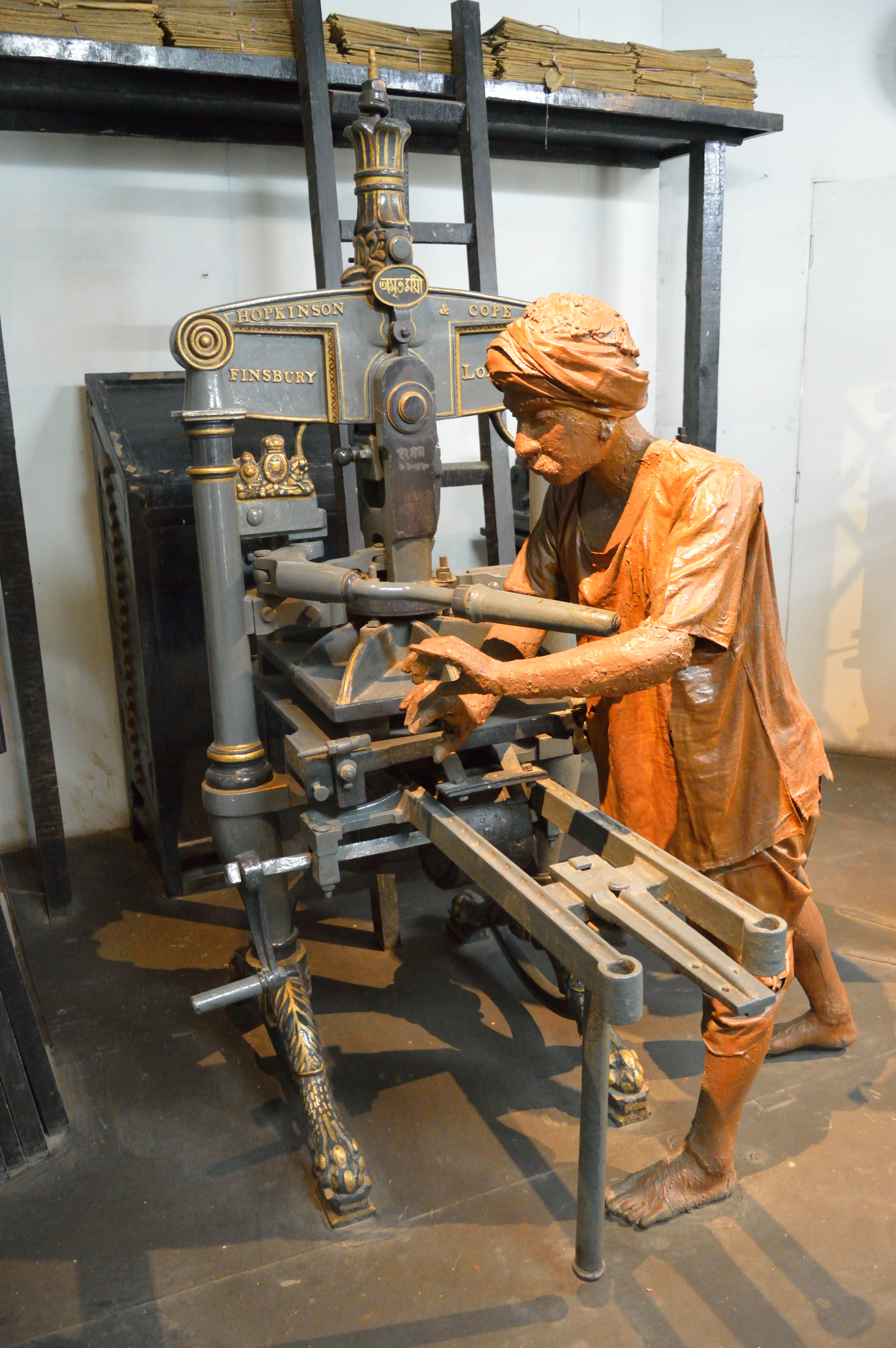 Photographed in New Delhi.